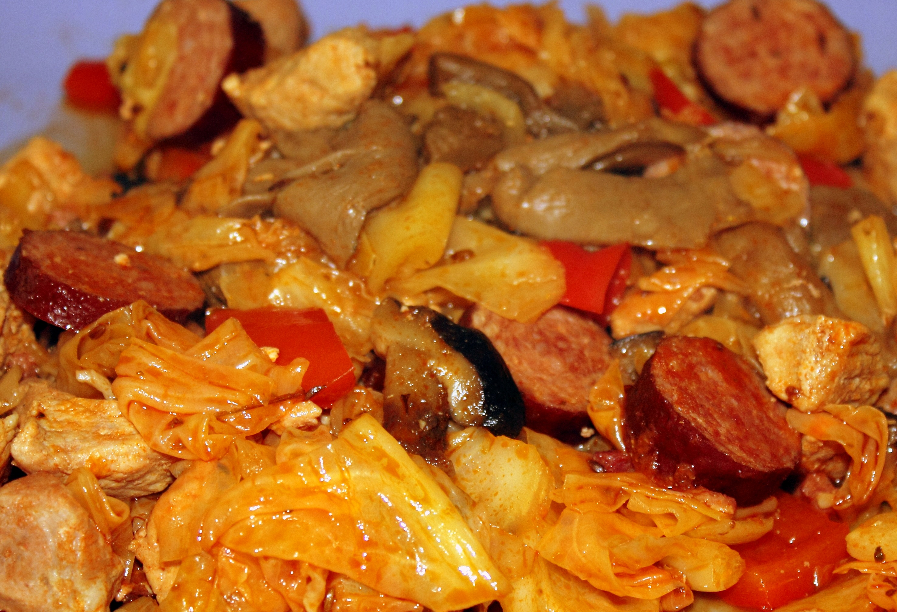 Bigos, Polish cabbage-and-meat stew